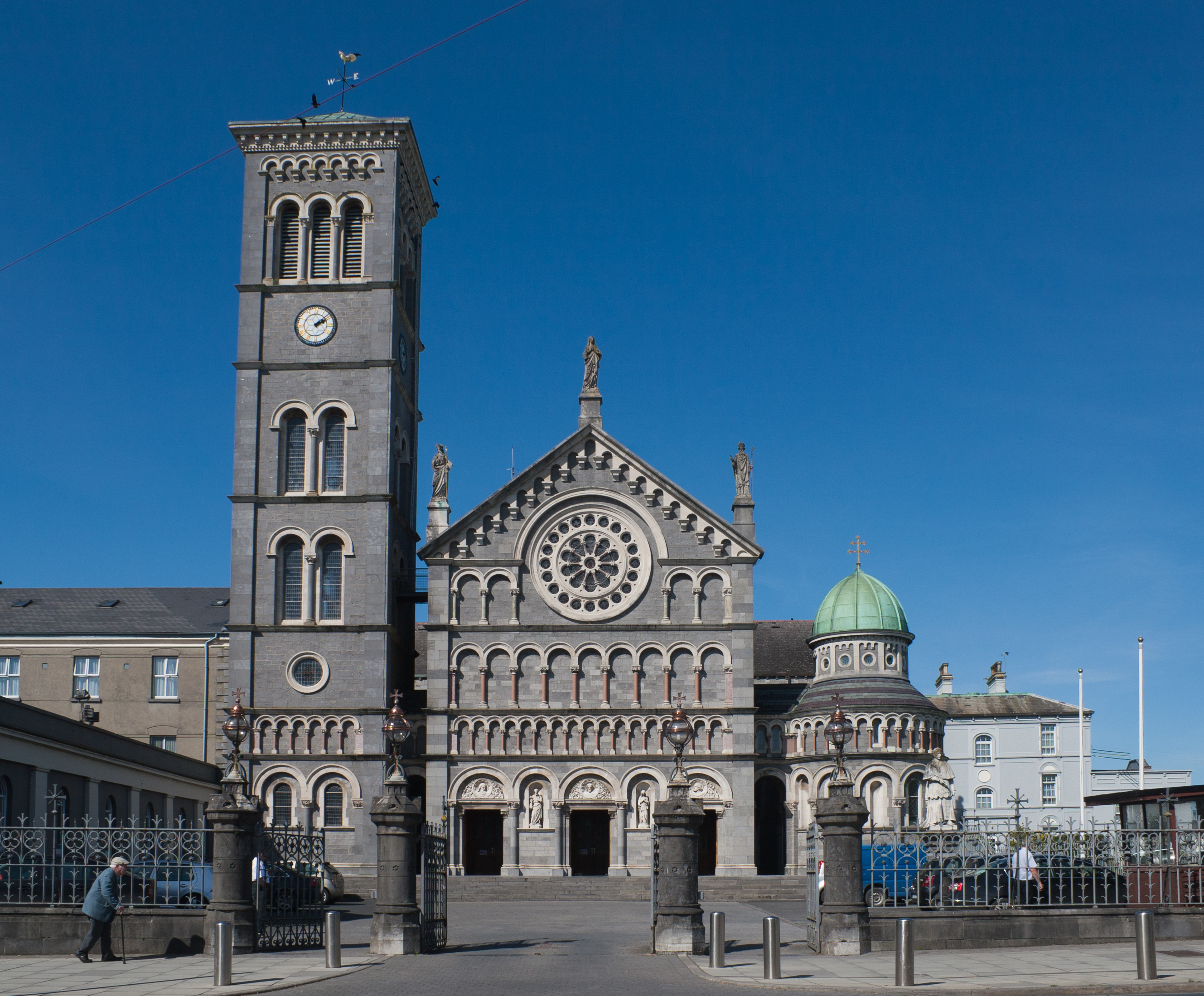 South façade including the baptistry.